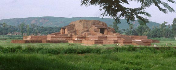 Vikramshila University